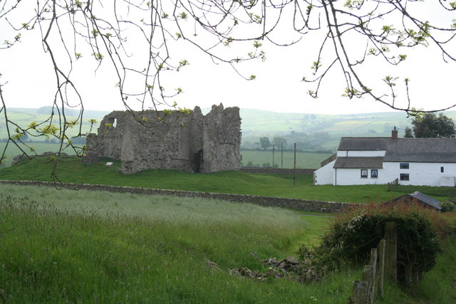 Bewcastle, near to Bewcastle, Cumbria, Great Britain. The ruins of Bew Castle at Bewcastle. Demesne Farm is also partly visible.